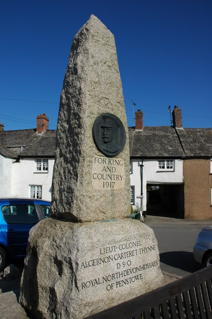 War Memorial in Kilkhampton War memorial in the centre of Kilkhampton to Lieut-Colonel Algernon Carteret Thynne who was killed in 1917. 'Lt.-Col. Algernon Carteret Thynne was born on 9 April 1868. He was the son of Francis John Thynne and Edith Marcia Caroline Sheridan. He married, secondly, Anita Constance Edith Bonham, daughter of Edward Bonham, on 13 February 1904. He died on 6 November 1917 at age 49. Lt.-Col. Algernon Carteret Thynne fought in the Boer War between 1900 and 1902. He gained the rank of Captain in the service of the North Somerset Yeomanry Cavalry. He gained the rank of Captain in the service of the 3rd Battalion, Bedfordshire Regiment. He was decorated with the Companion of the Distinguished Service Order (D.S.O.). He gained the rank of Lieutenant-Colonel in the service of the Royal North Devon Hussars. He fought in the First World War.' Further information sourced from: . He is buried in Beersheba War Cemetery in Israel